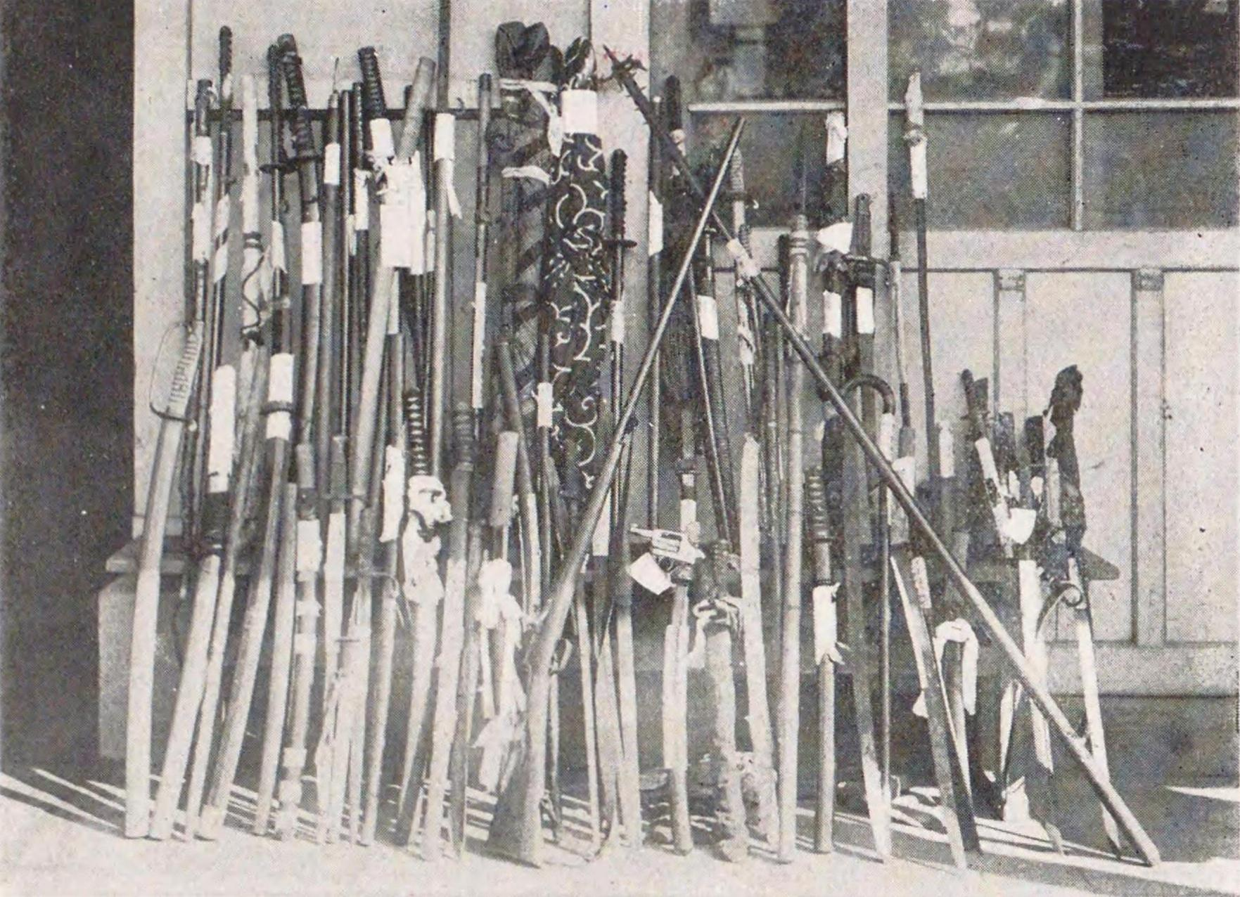 Retained weapons of vigilantes at Ushigome-Kagurazaka Police Station